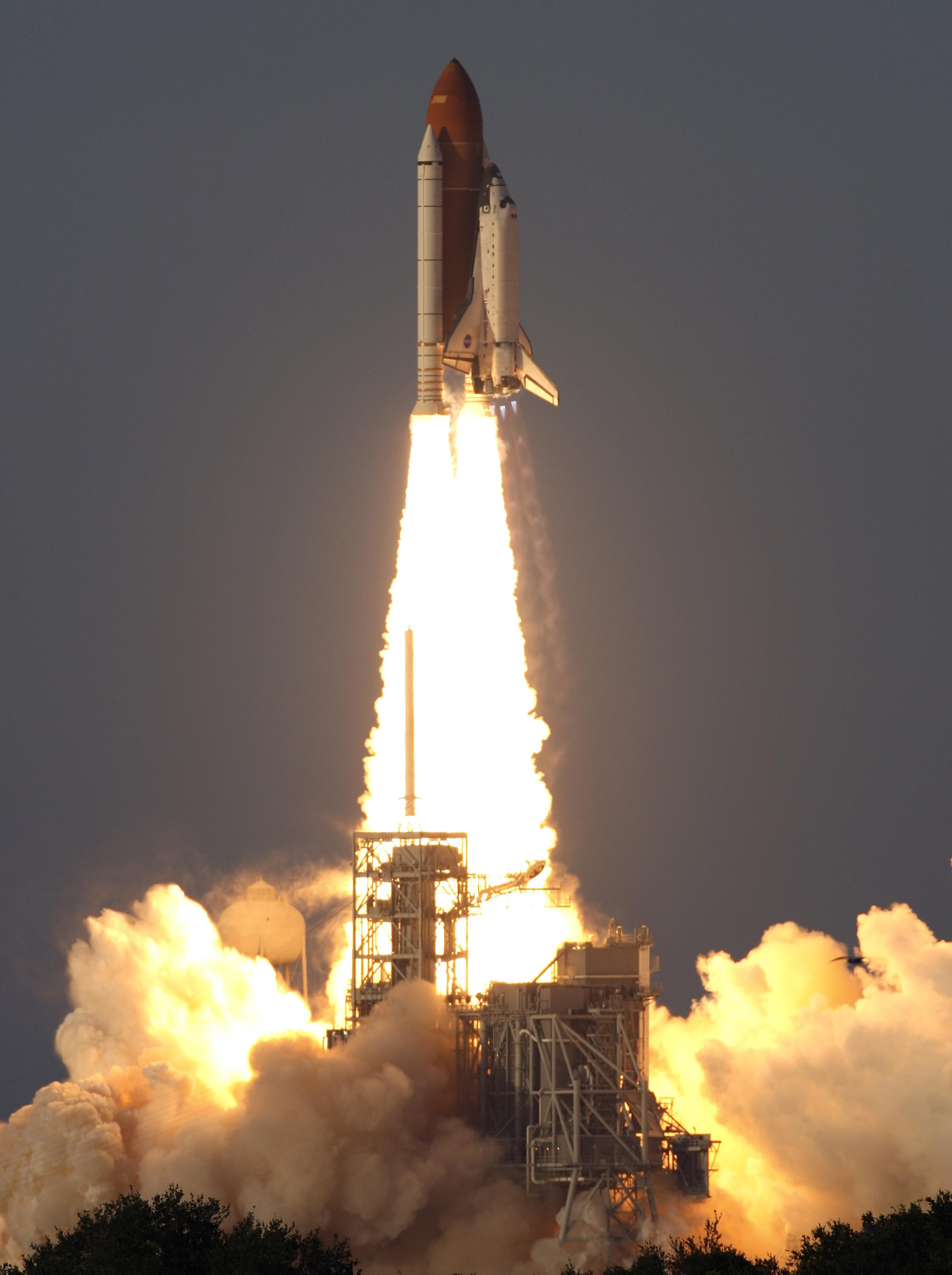 Launch of Space Shuttle Atlantis on STS-117